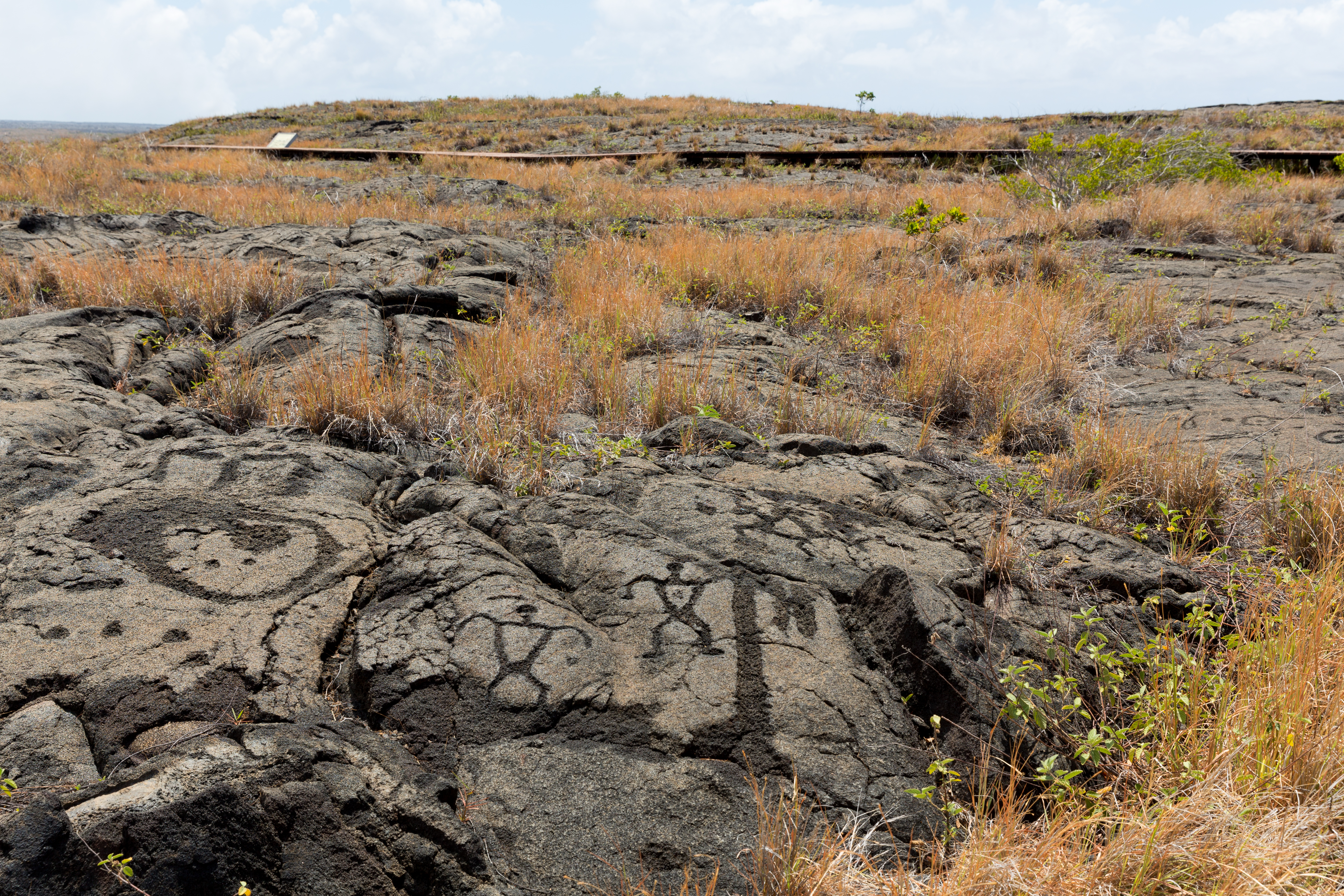 Pu'u Loa petroglyphs in Hawaiʻi Volcanoes National Park